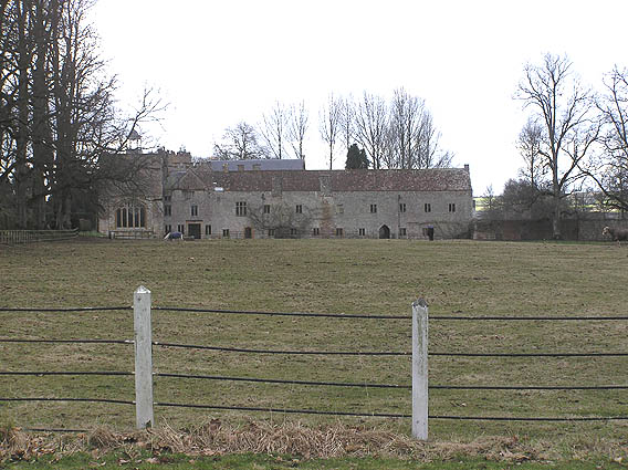 Forde Abbey, a former Cistercian monastery.